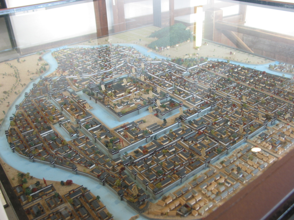 Scale model of Medieval Hiroshima, from the Hiroshima castle museum. Taken by Ningyou